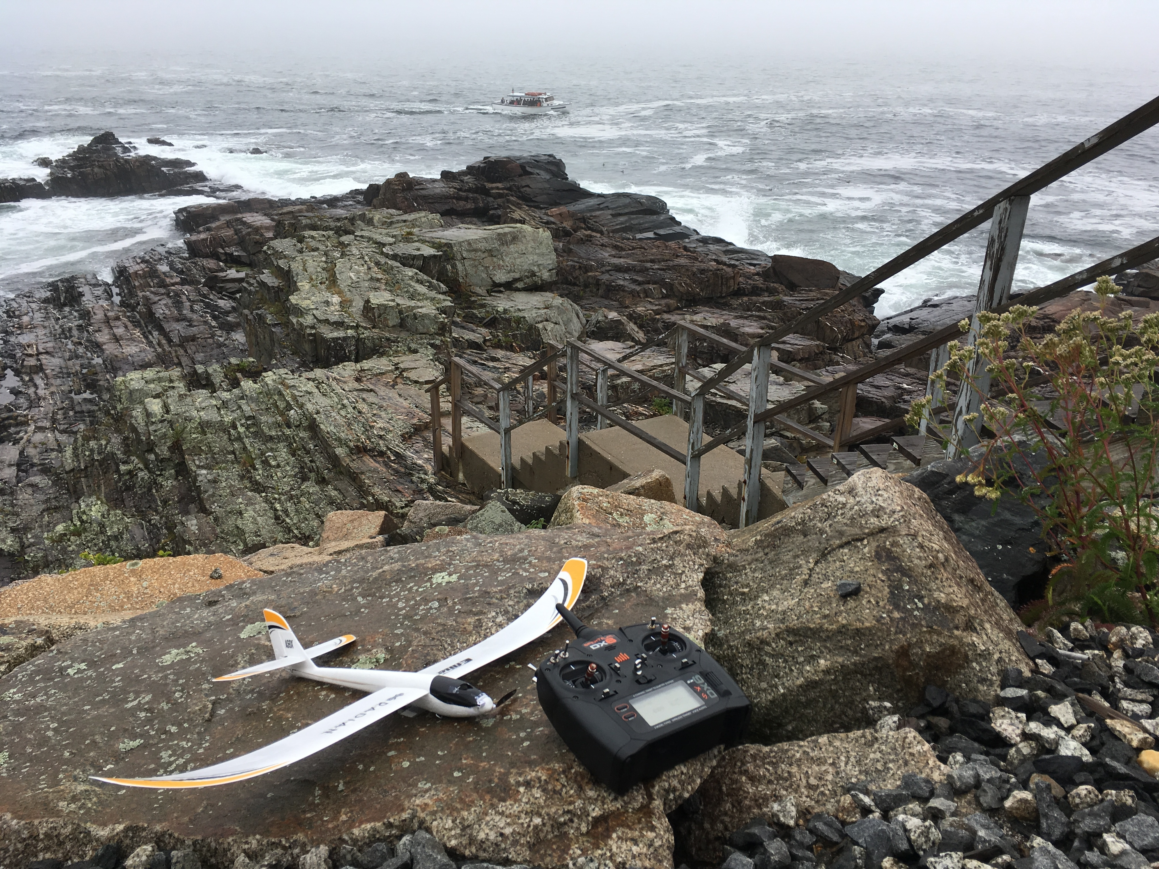 Flying an UMX Radian model glider on the main rock formation at Bald Head Cliff